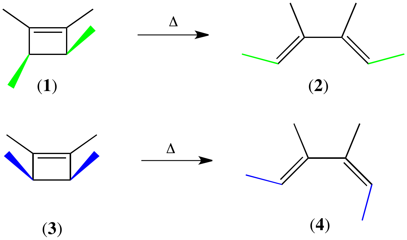 Stereospecificity of 4e electrocyclic ring opening reaction.